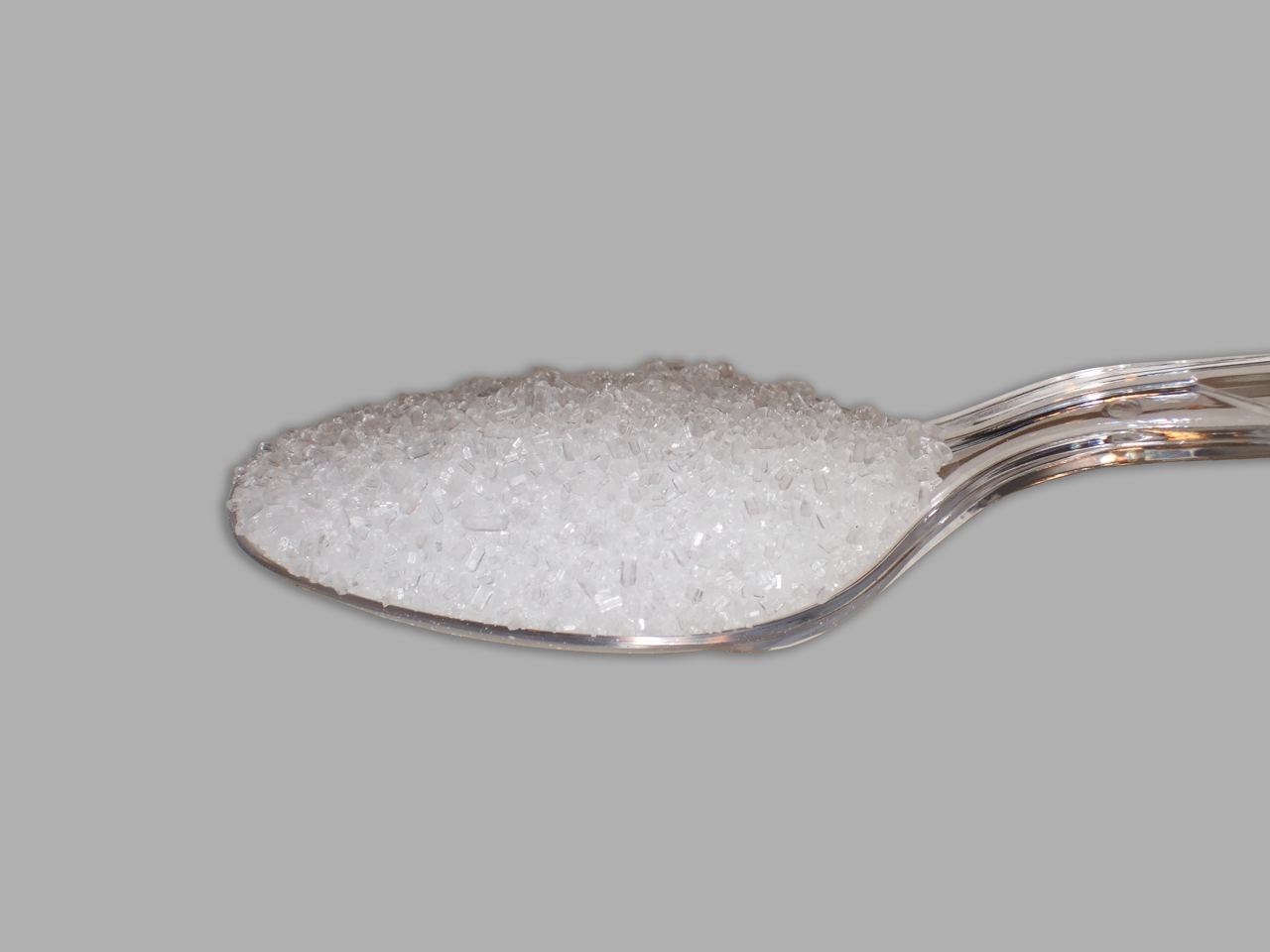 Corrosive Drain Cleaner, Solid Formulation